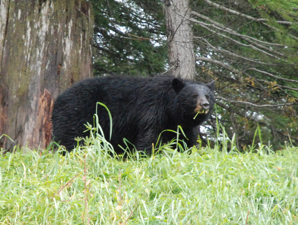 Bear in Whistler, BC, Canada